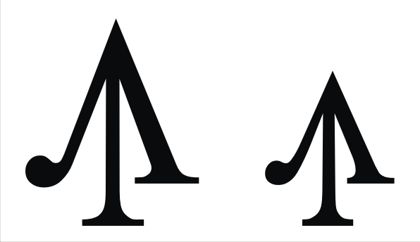 This is the Cyrillic letter Yn, made by Chris Iz Cali, used Yn compared with other Cyrillic letters, and cut out the Yn.